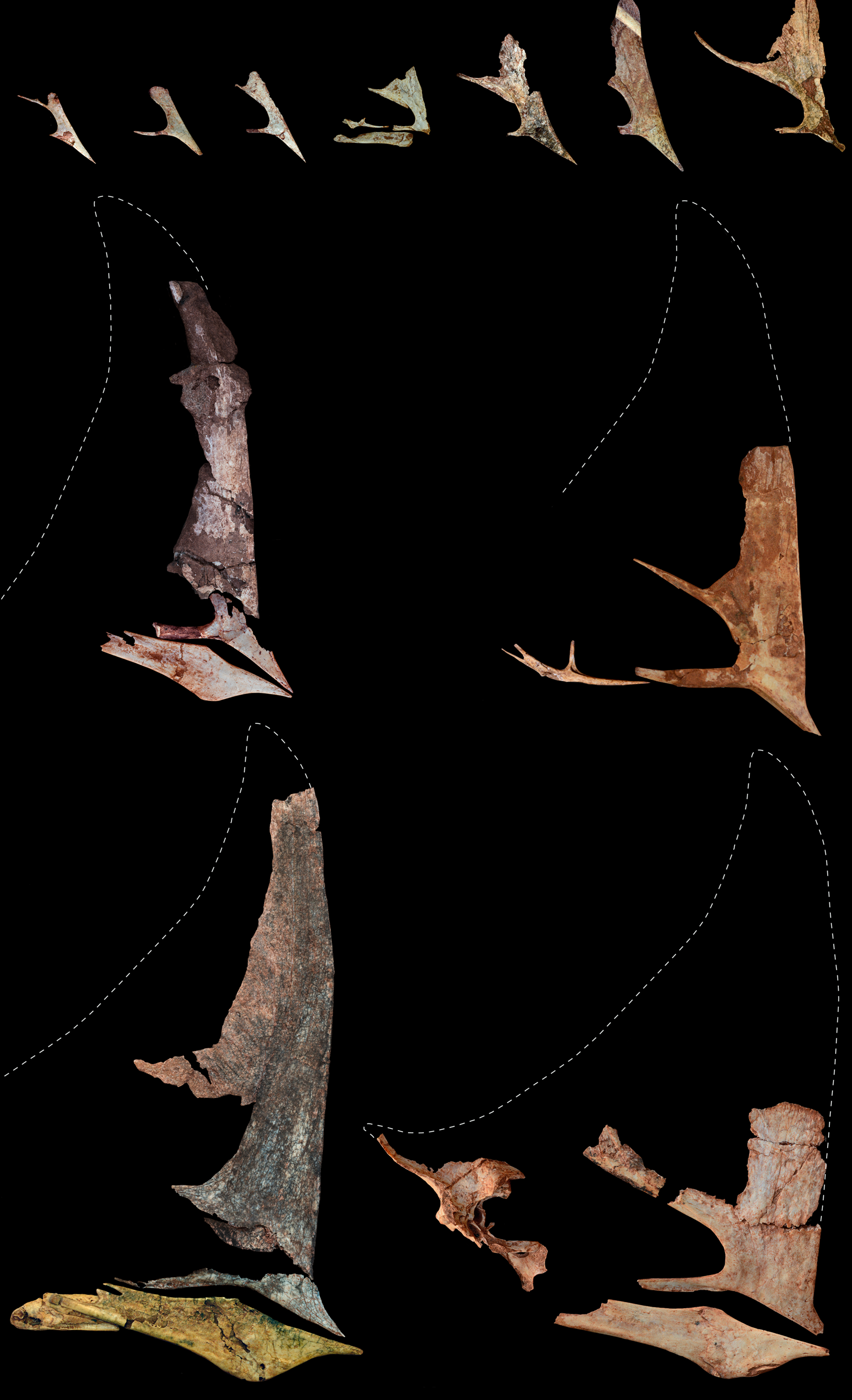 Selected cranial material of Caiuajara dobruskii showing anatomical changes during ontogeny. Note that the cranial crest gets gradually larger in older individuals. From top left to bottom right: CP.V 1050-1 (inverted), CP.V 1050-2 (inverted), CP.V 1003, CP.V 866 (inverted), UEPG/DEGEO/MP-4151, CP.V 1023 (inverted), UEPG/DEGEO/MP-4151 (second skull), CP.V 1001, CP.V 1447, CP.V 1005 (with posterior part of lower jaw reconstructed), CP.V 1449 (holotype). Scale bar, equals 50 mm.